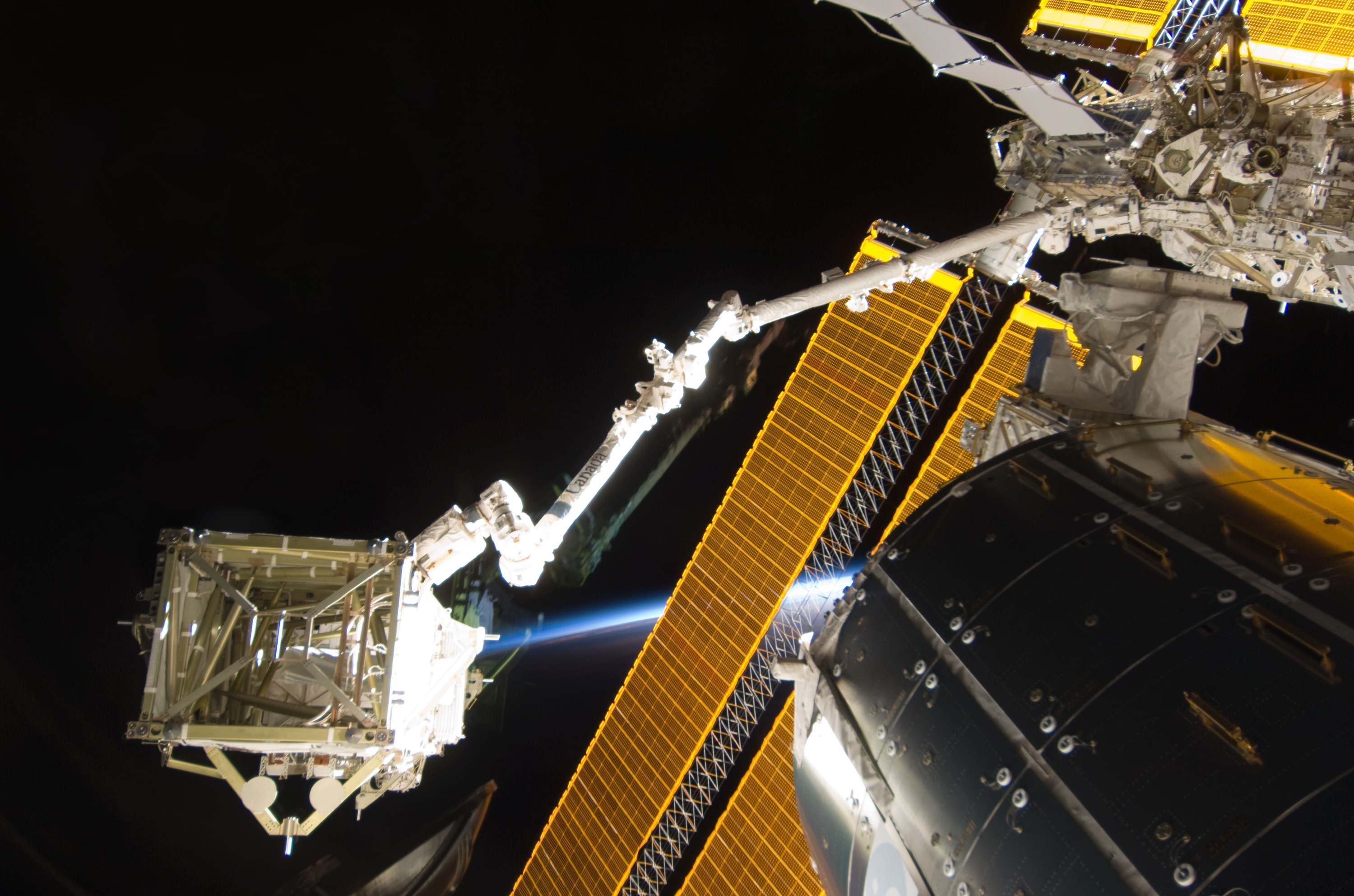 In the grasp of the International Space Station’s robotic Canadarm2, the S6 truss segment was photographed by a STS-119 crewmember while Space Shuttle Discovery was docked with the station. The S6 truss segment was moved from Discovery’s cargo bay by the station’s Canadarm2, handed off to the shuttle’s remote manipulator system (RMS), and then handed back to the station’s robotic arm where it will remain in an overnight parked position. Also visible in the image are the Columbus laboratory, starboard truss and solar array panels.